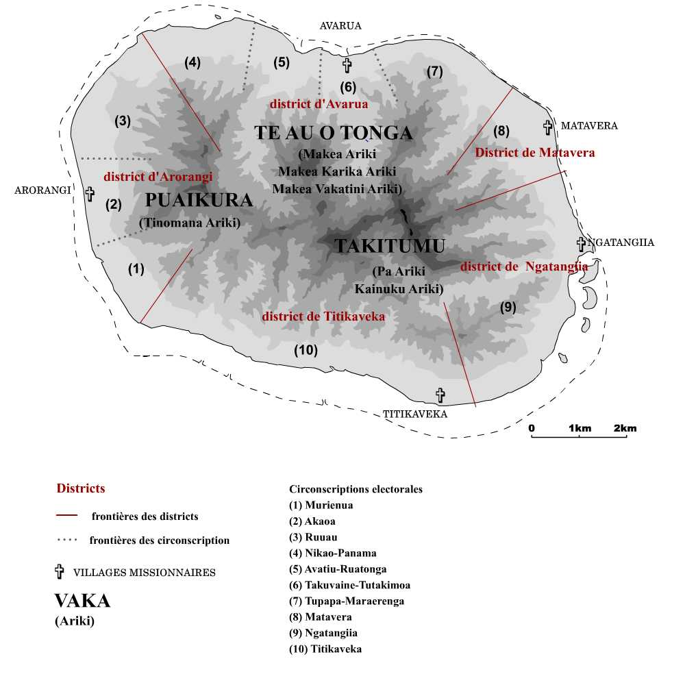 Districts et circonscriptions électorales de Rarotonga (îles Cook)/Rarotongan districts and constituencies (Cook islands).